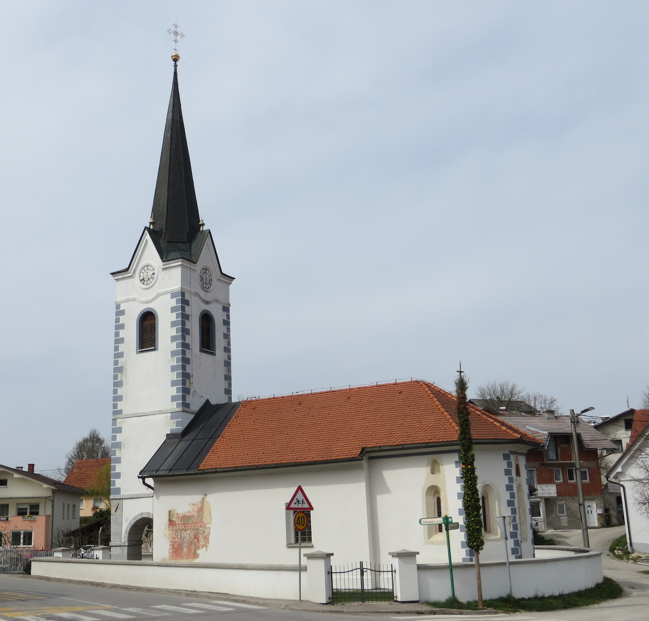 Saints Simon and Jude Church in Pijava Gorica, Municipality of Škofljica, Slovenia